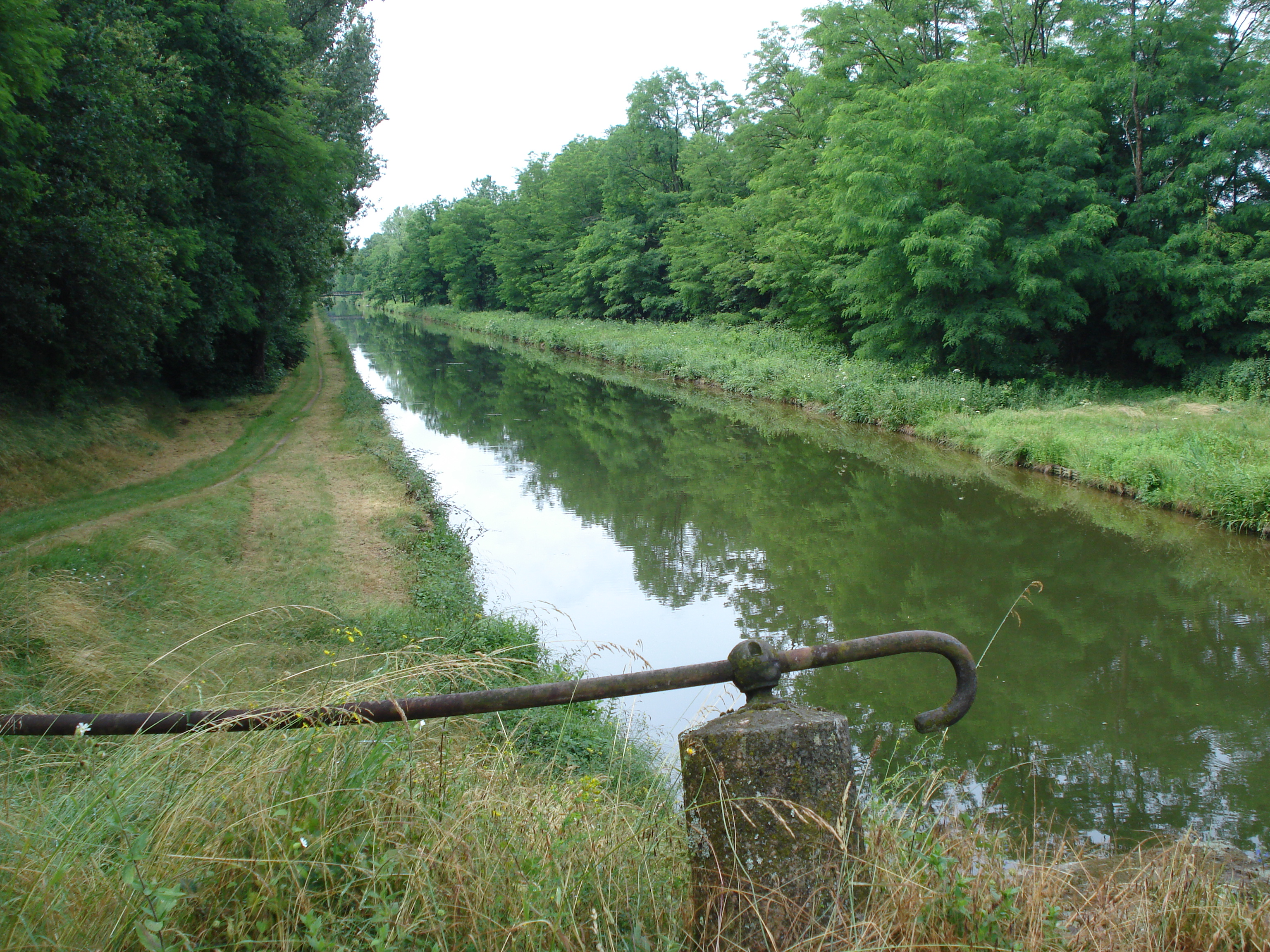 Artaix, Canal de Roanne à Digoin